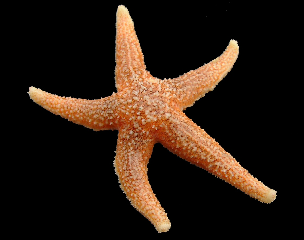 The Atlantic red sea star Asterias rubens. This starfish was sampled on the Belgian Continental Shelf.Studio image.